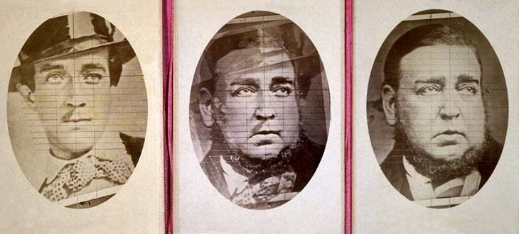 A group of photographs designed to prove that Roger Tichborne (left) and the person claiming to be him (the "Claimant", right) were one and the same, as per the central blended image.